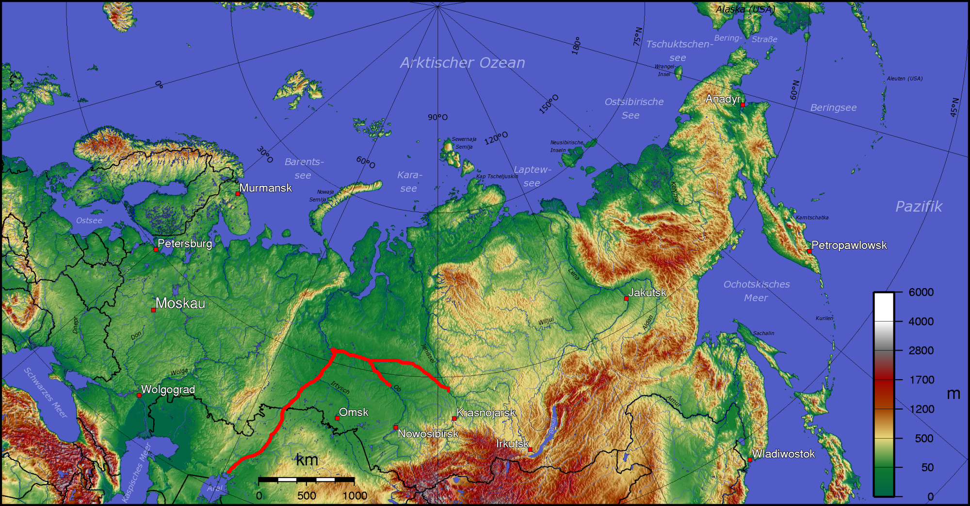 One of the versions (probably, 1960s vintage) of the Russian Northern Rivers Diversion plan. The scheme depicted involves transfer of water from the Yenisei into the Ob, and piping water upstream from the Ob via Irtysh and Ishim, and then a canal, toward the Aral Sea. An actual implementation would also see a canal skirting the Aral Sea from the east (not shown on this map), to bring water to the Syr Darya and Amu Darya. Russia.